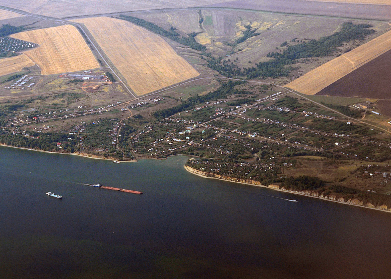 Aerial view of Shelanga village and Volga river (40 km south from Kazan city), August 2009